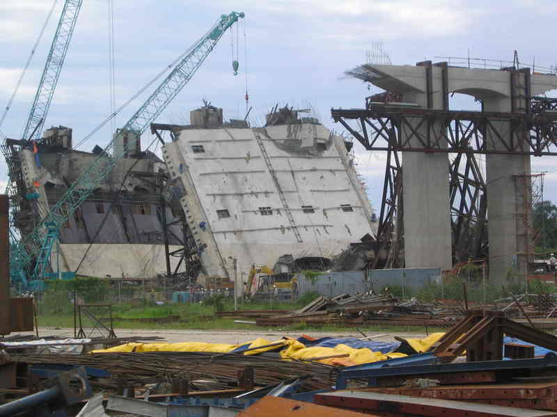 Collapsed ramp of Can Tho Bridge. The copyright of this image has been released by a Vietnamese wikipedian with lisensing as public domain.